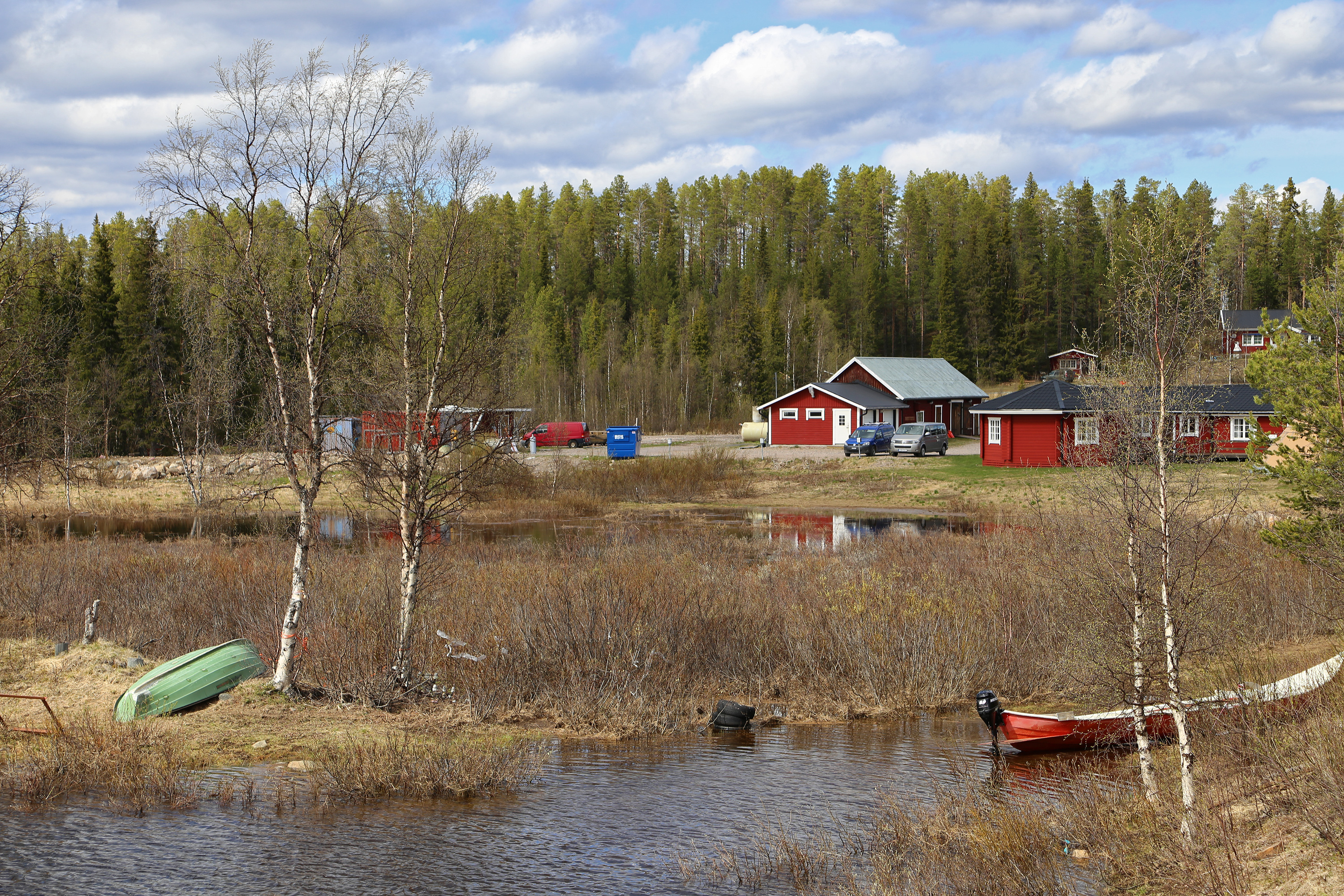 Lappeasuando is an Anglercamp on the river Kalixälven. The hamlet belongs to the municipality of Gällivare in the northern Swedish province of Norrbottens (Lapland), about 100 kilometers north of the Polar circle.